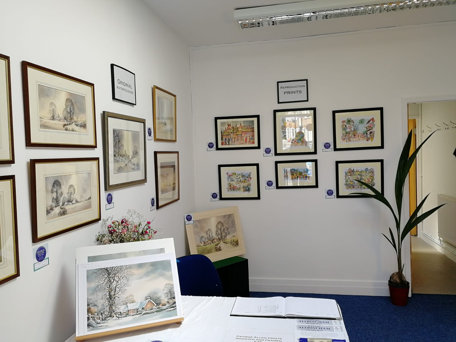 An image of some of the paintings currently on display in The George Allen Gallery , Altrincham.